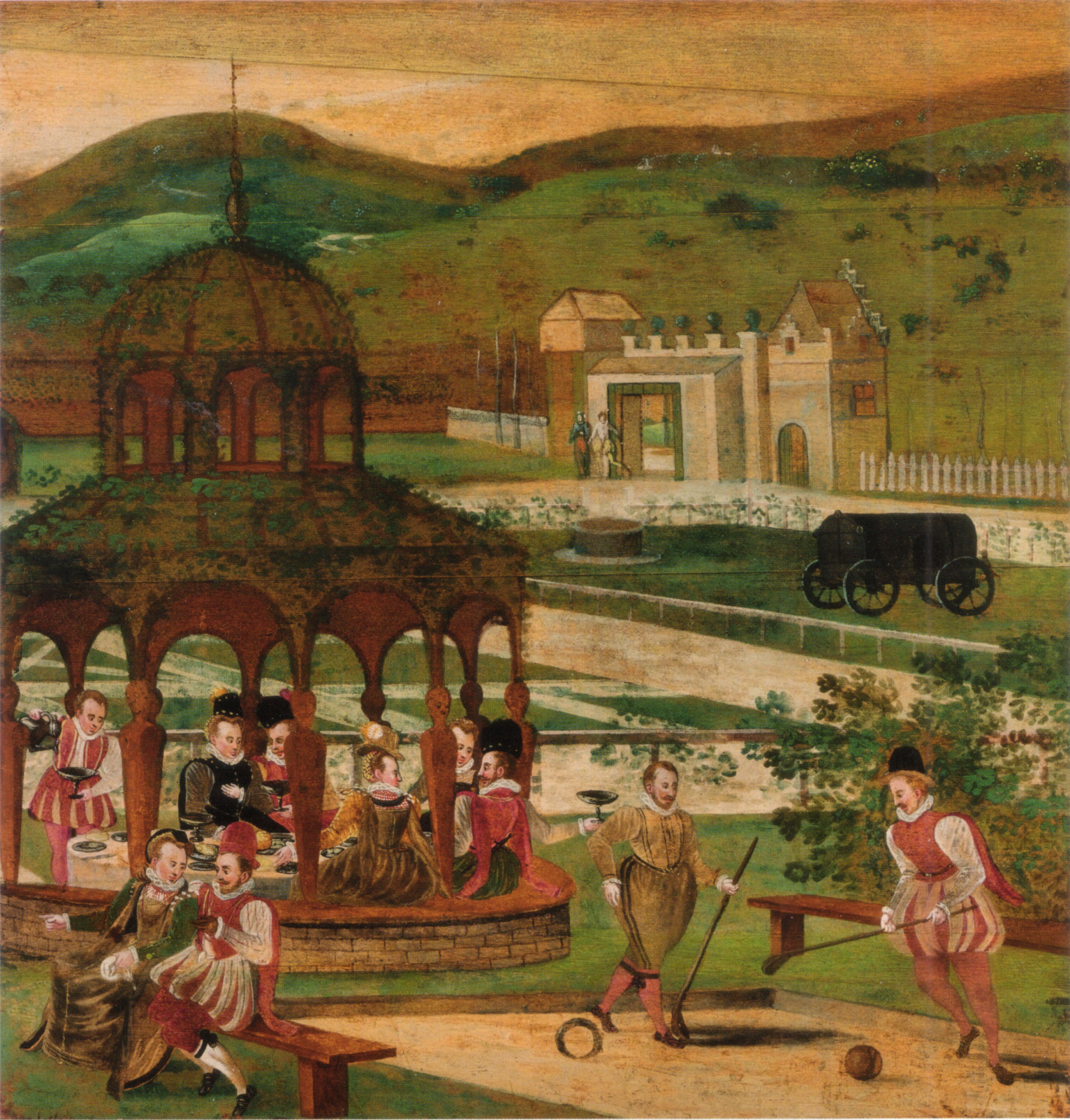 Gentlemen playing troco or lawn billiards while ladies and gentleman dine in an ivy-covered pergola near a formal garden.